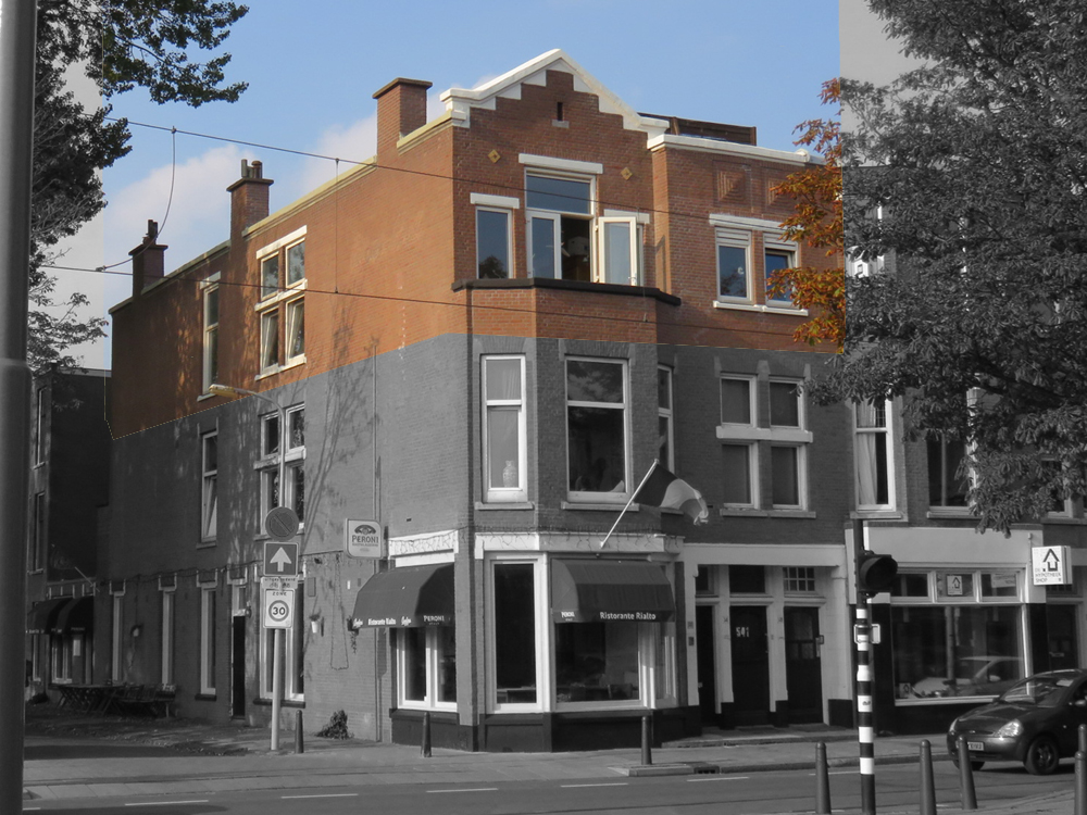 Laan van Meerdervoort 539 in The Hague: from 1916 - 1943 the home and office of jhr. Jacob Schorer (1866-1957), founder of the first Dutch gay rights organization NWHK (1912-1940).